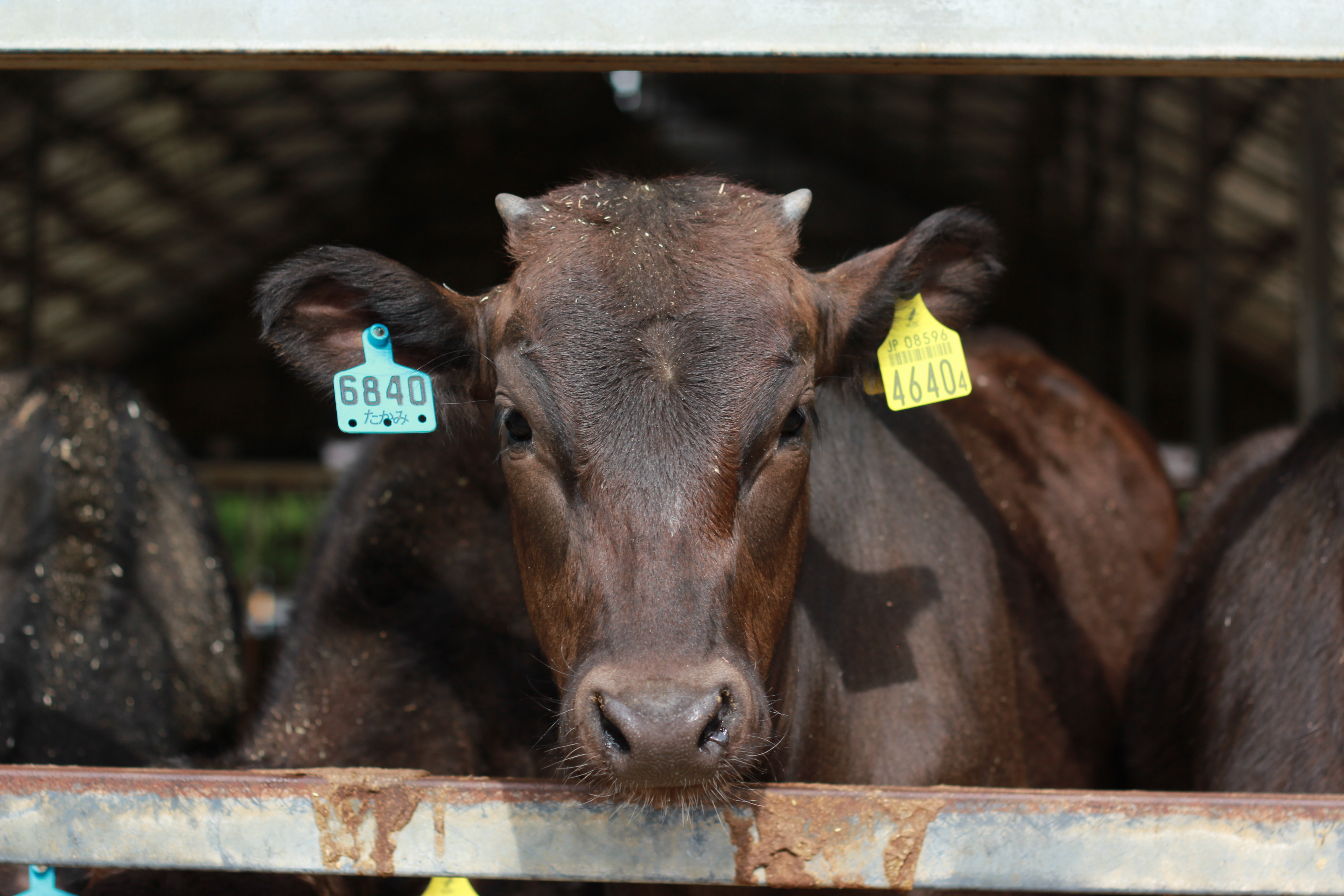 Tajima cattle at a farm in northern Hyogo Prefecture (Kobe). If its meat ends up with a sufficient grade, it will be sold as Kobe beef.